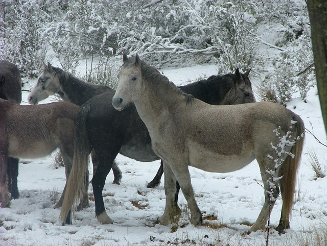 Wild Brumbies at Snowy Wilderness retreat in Jindabyne NSW Australia.